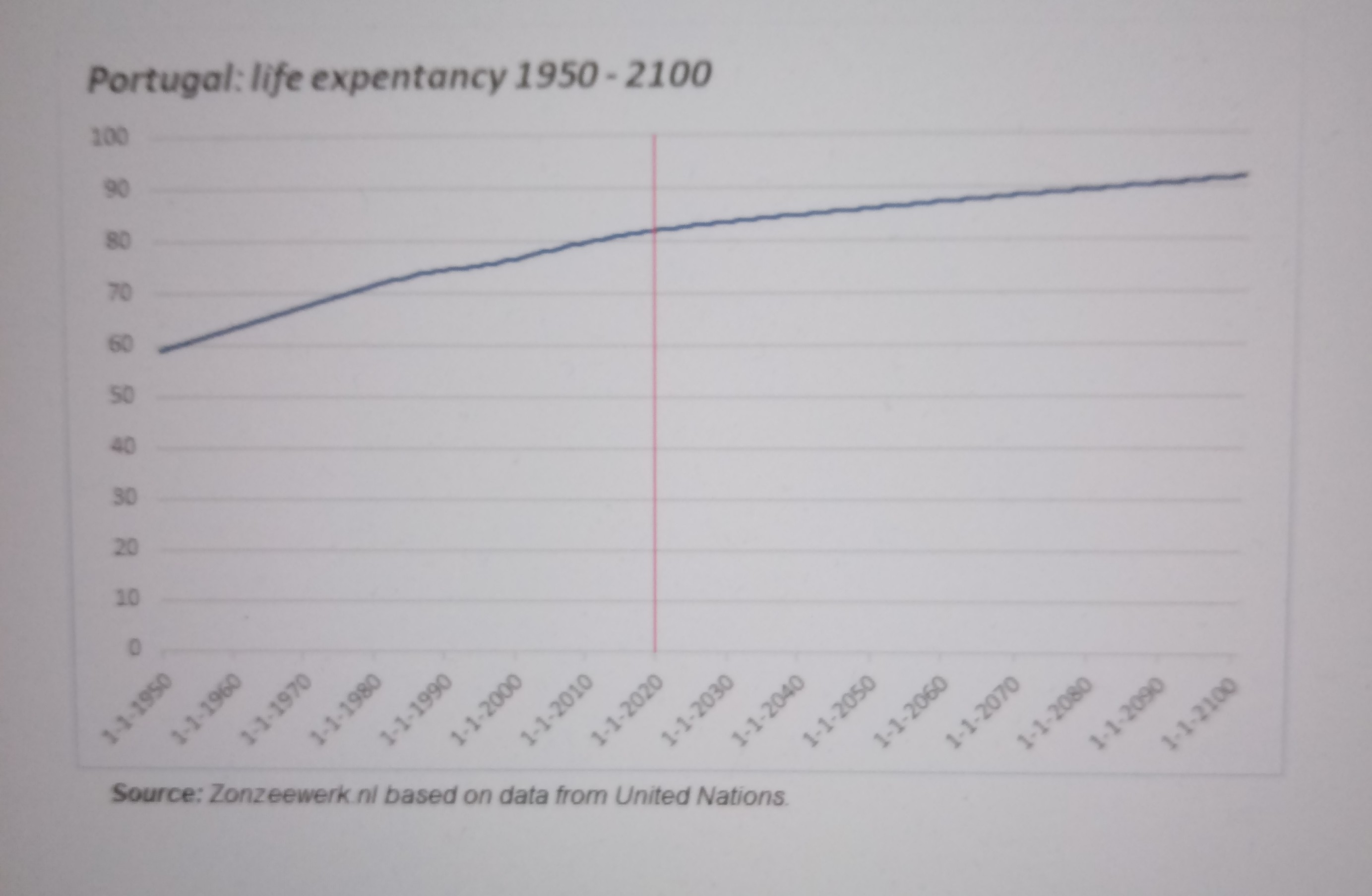 Historic life expectancy and future projections of the Portuguese population, data range from 1950 to 2100.